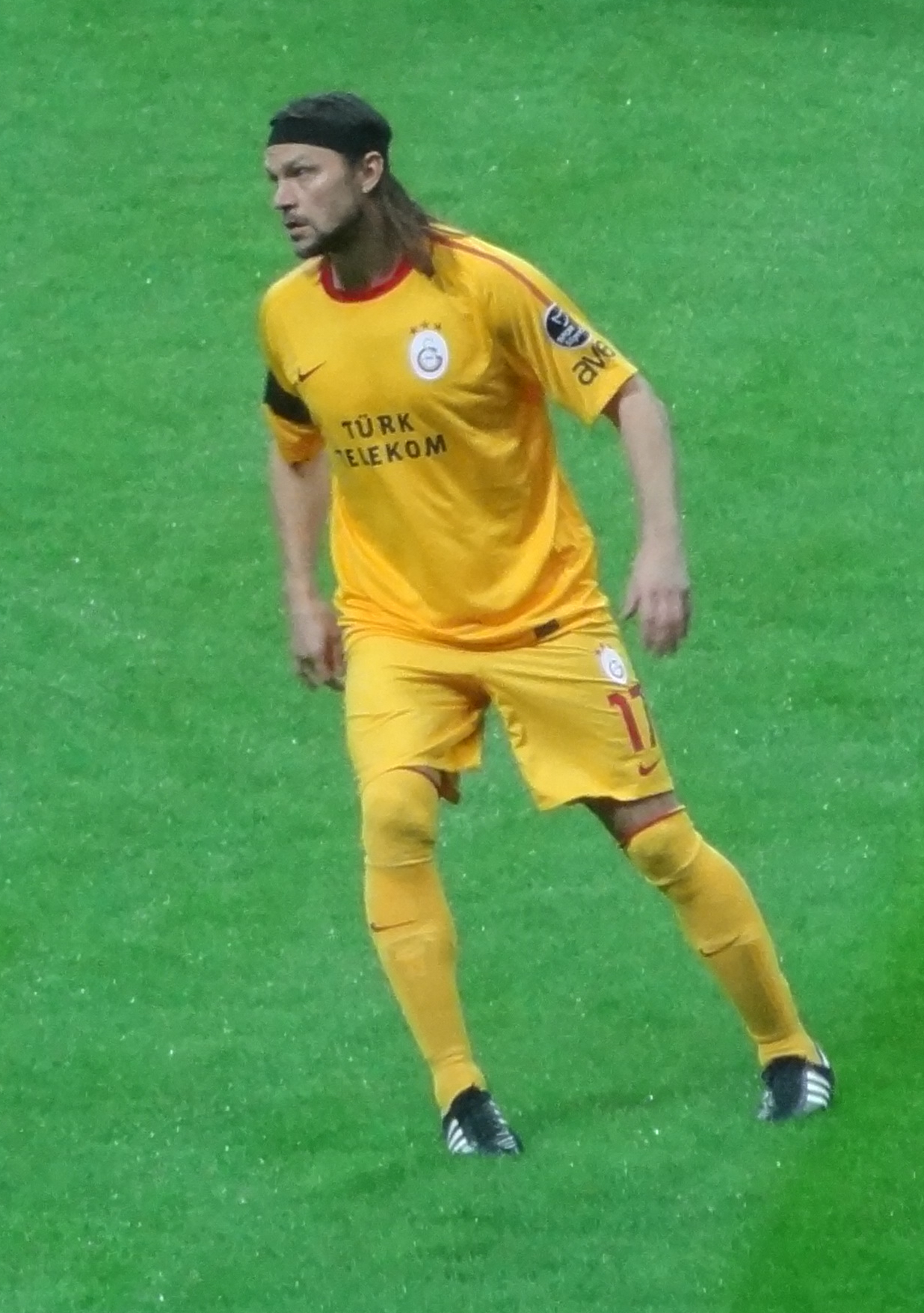 ujfalusi gaziantep